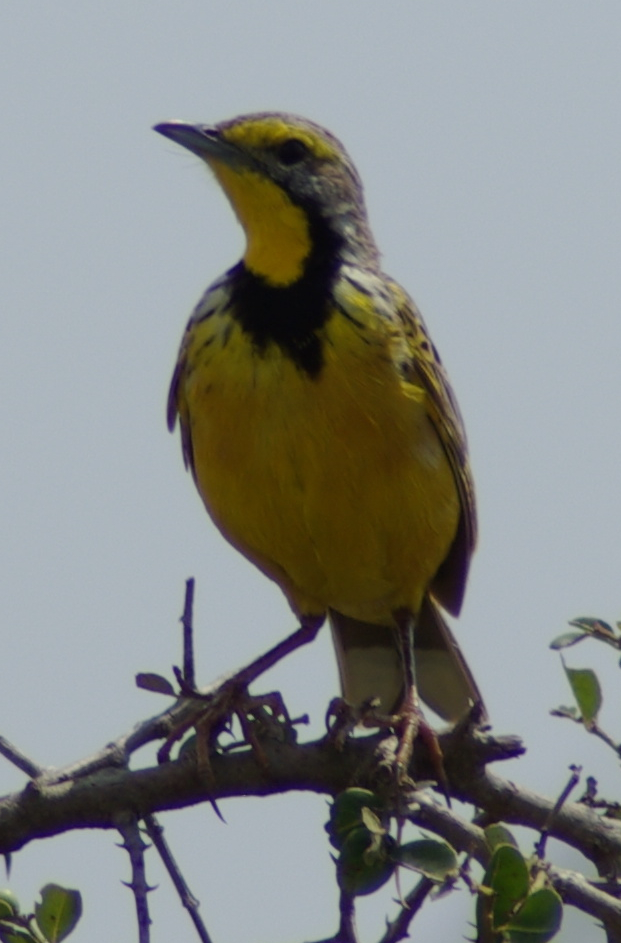 Adult Yellow-throated Longclaw, Macronyx croceus croceus, Sweetwaters Game Reserve, Kenya. The time stamp is 10 hours too early.